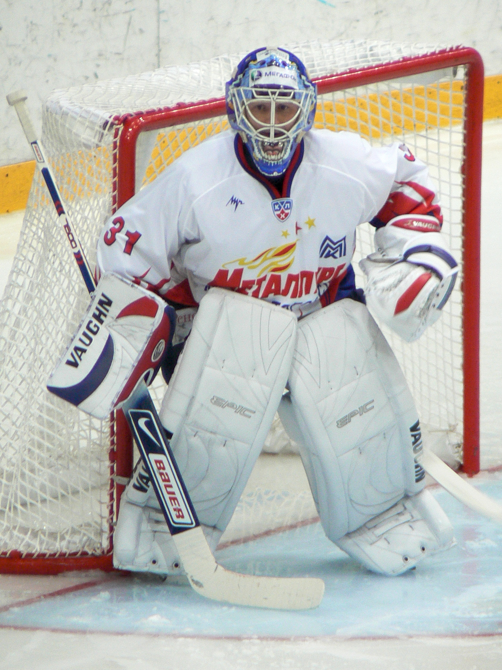 Belarusian ice hockey player Andrei Mezin tending the goal of Metallurg Magnitogorsk at the 2008 Tampere Cup.